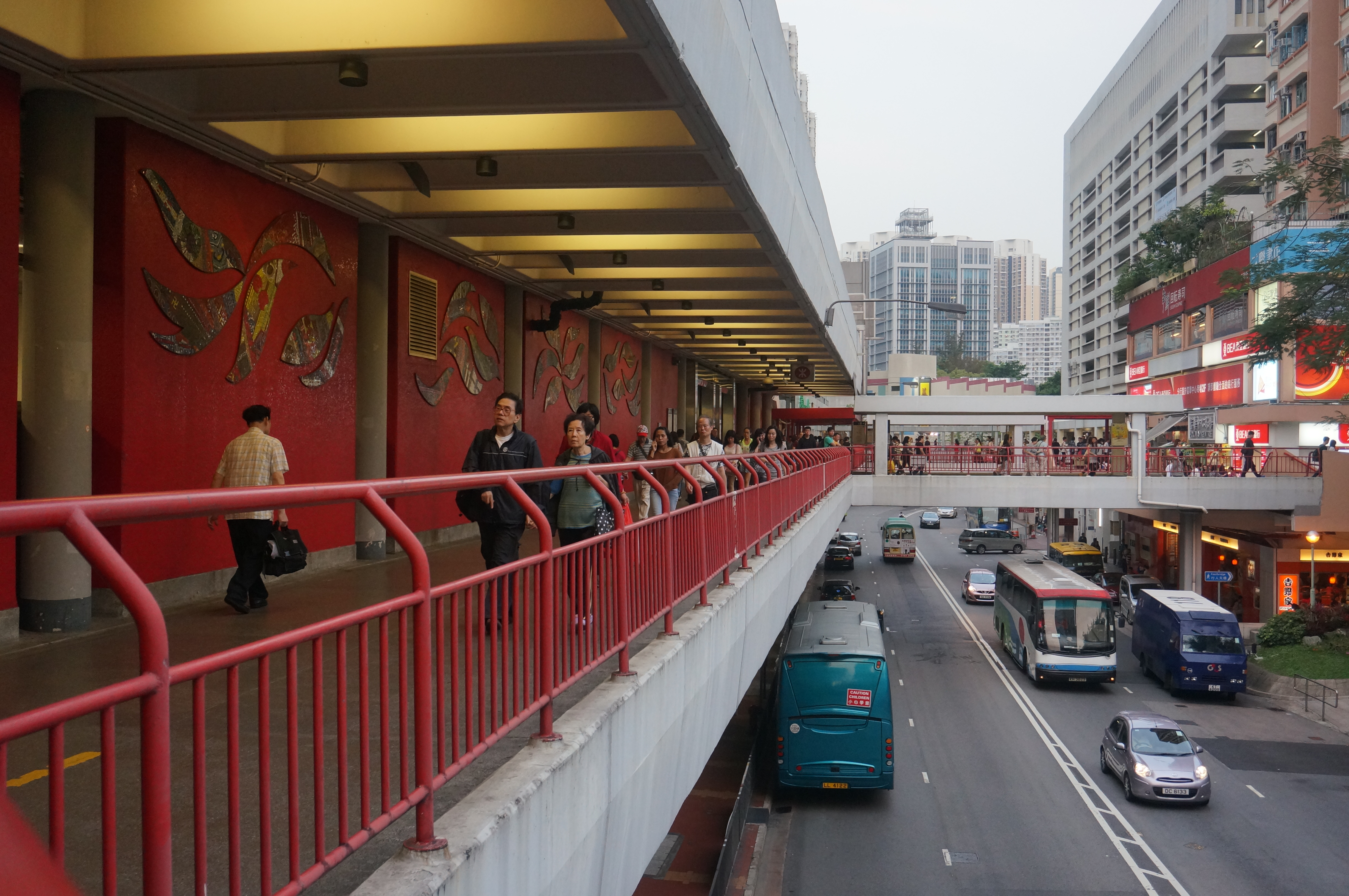 Footbridge outside concourse of MTR Tsuen Wan Station. 中文（香港）: 港鐵荃灣站大堂外的行人天橋